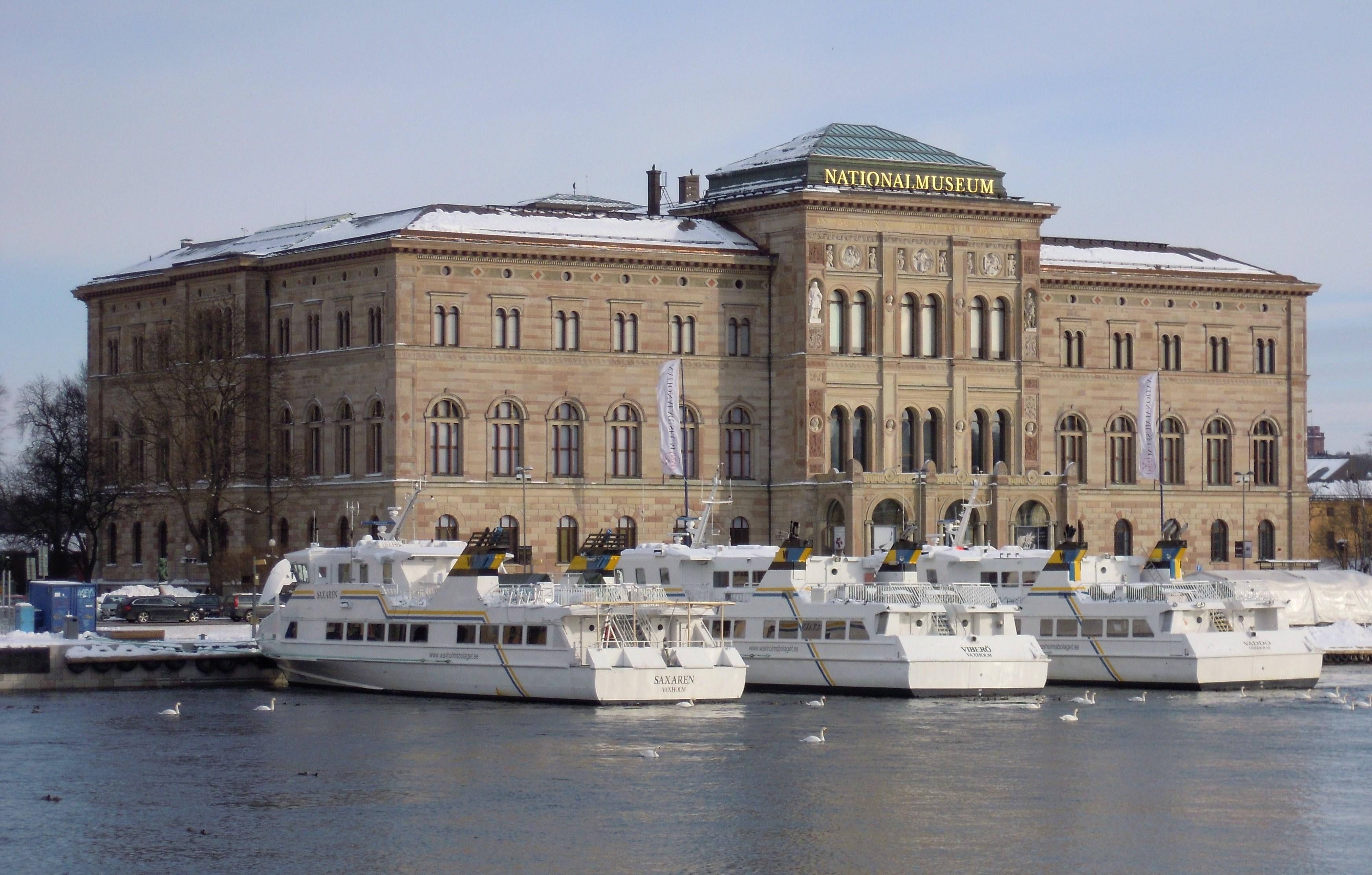 Nationalmuseum, Stockholm